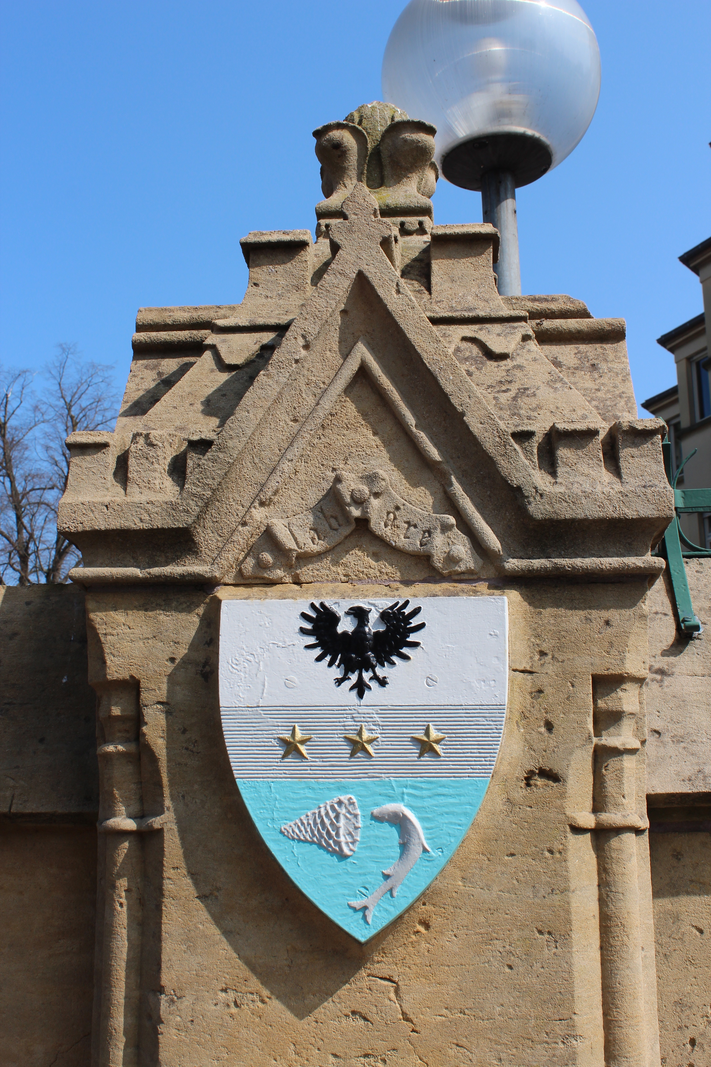 Fondation Pescatore in Luxembourg City: Coat of arms of the Pescatore family.